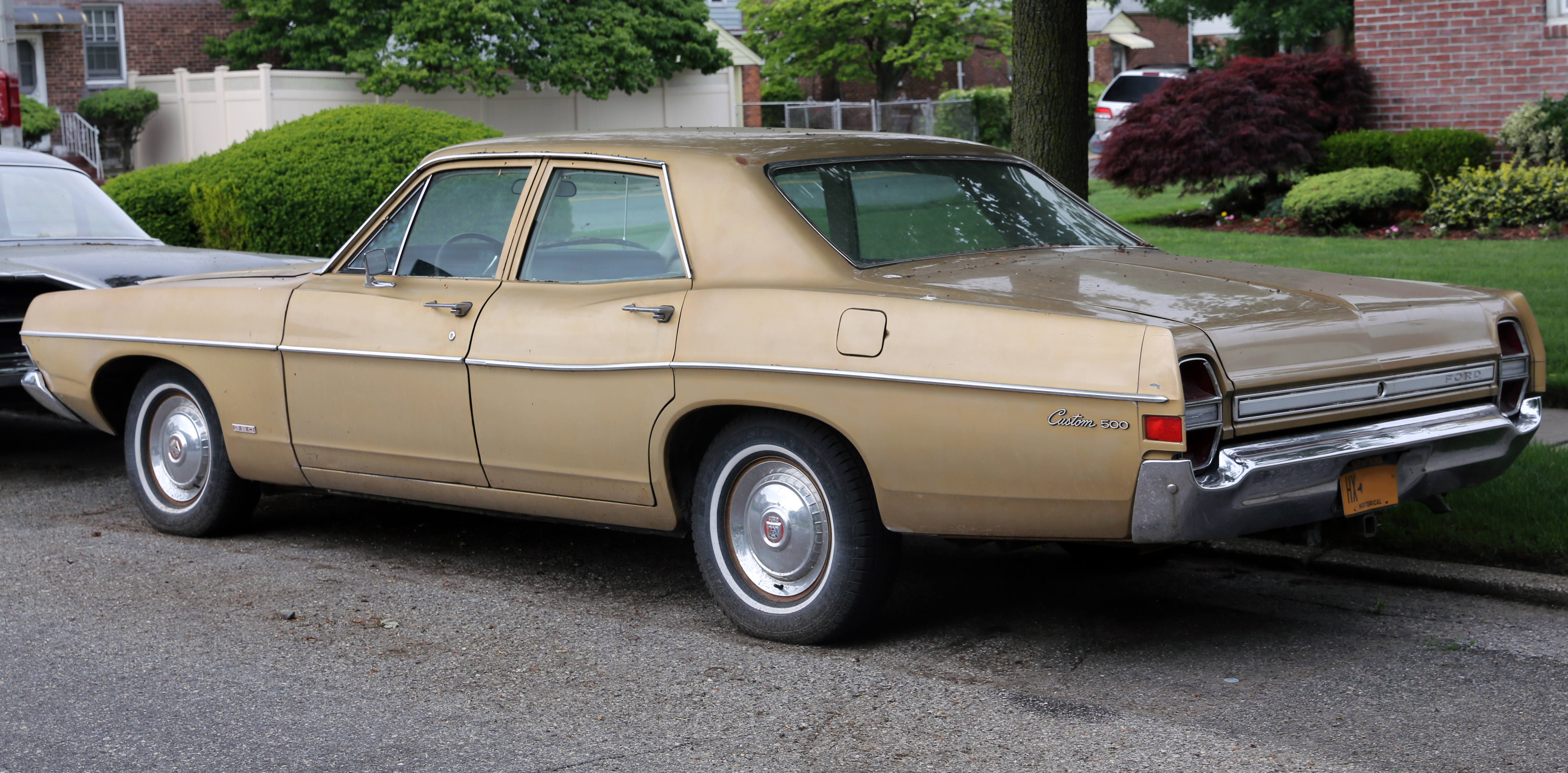 A 1968 Ford Custom 500 four-door sedan, with the two-barrel 390ci V8 with 265hp (SAE Gross). Assembled in Los Angeles, CA.